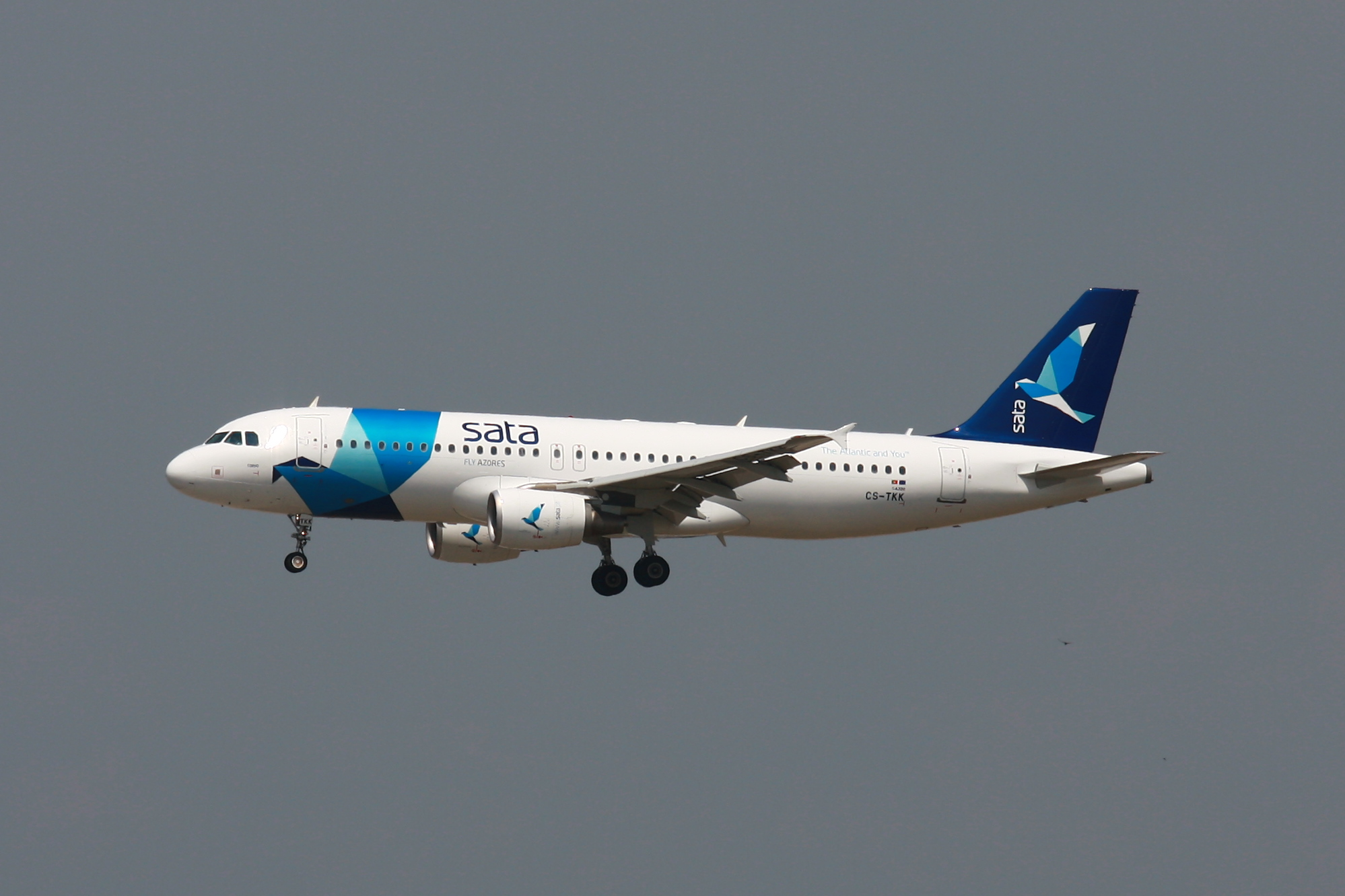 A Airbus A320 of SATA International landing at Frankfurt Airport